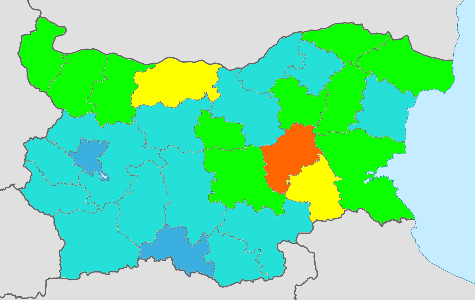 Bulgaria total fertility rate by region. Data is from REPUBLIC OF BULGARIA National statistical institute